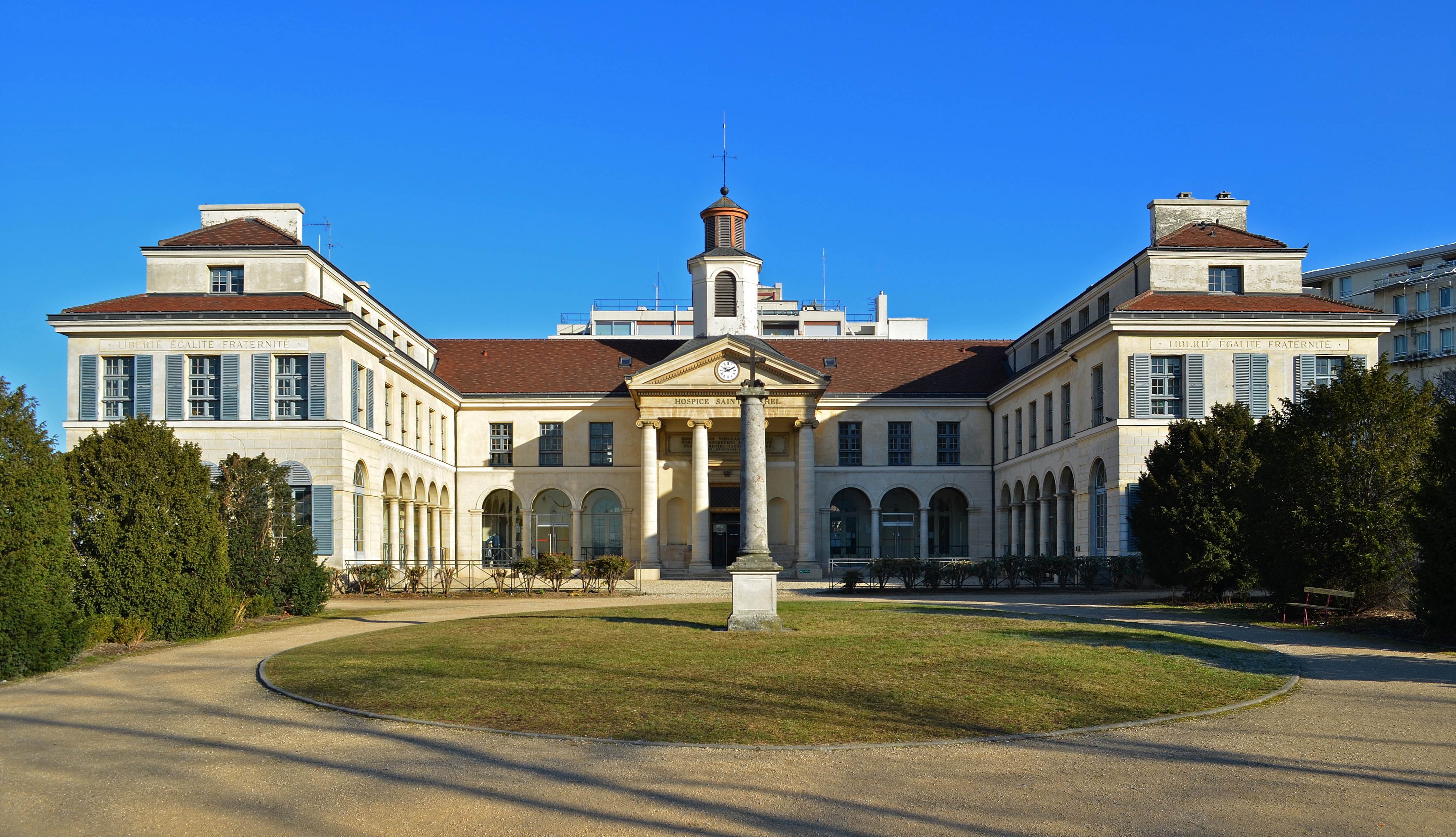 Front view of the Hospice Saint-Michel, seen from the avenue Courteline, Paris 12th arrondissement, France.